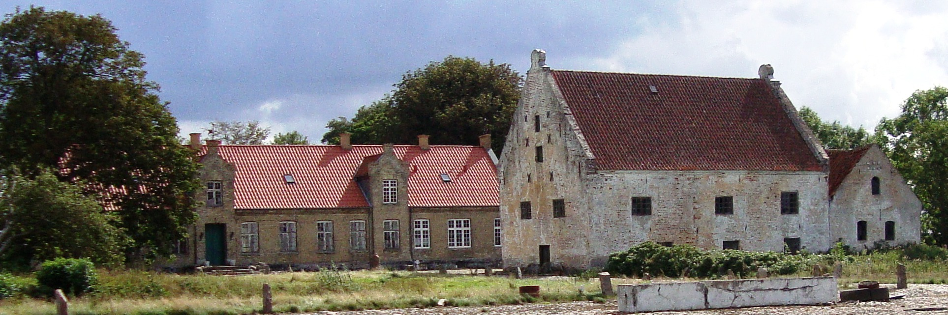 The remains of Hjermitslevgaard in Øster Brønderslev, Vendsyssel, Denmark.